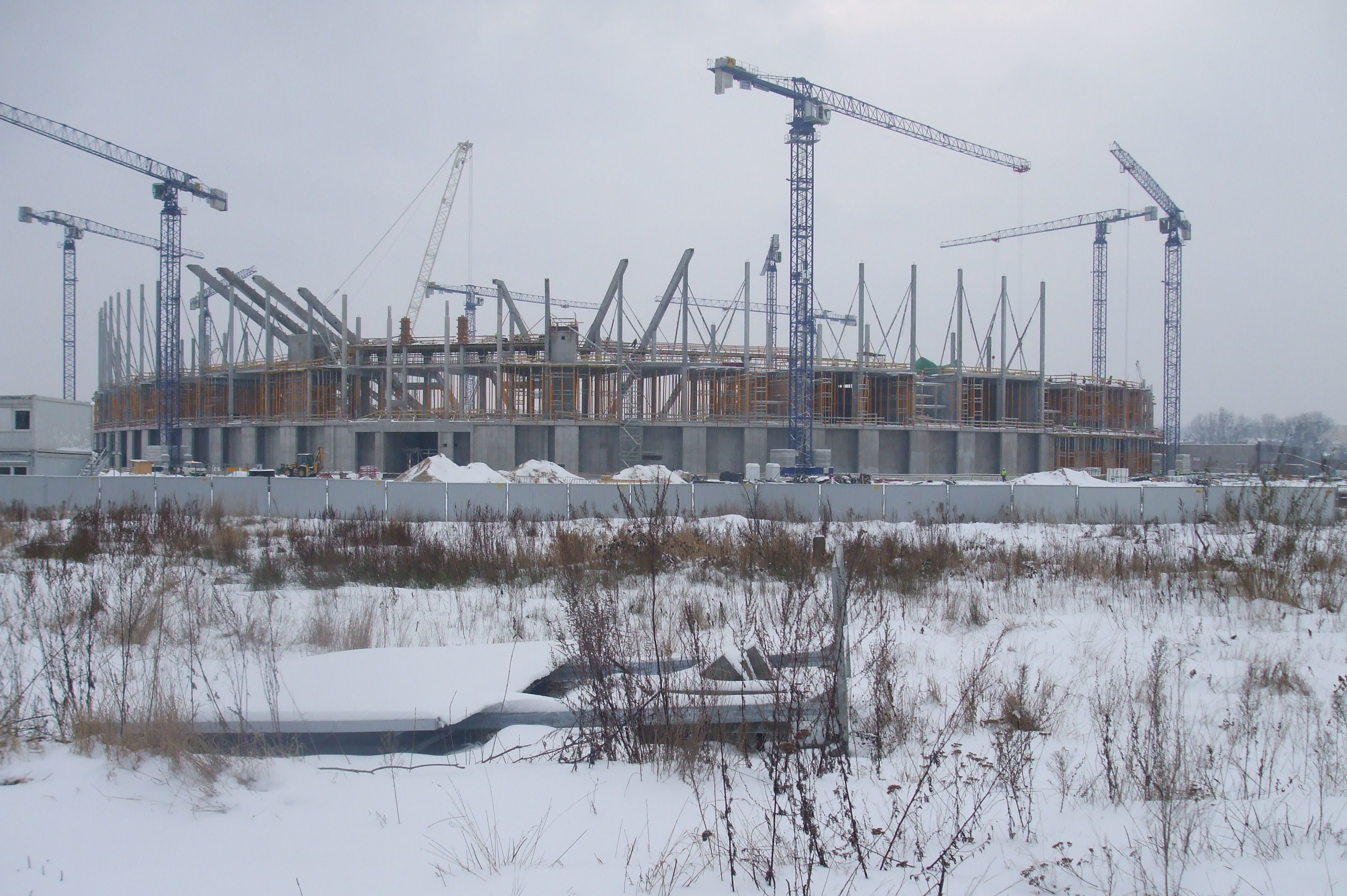 The football stadium in Gdańsk Letnica (Poland) under construction, January 2010.